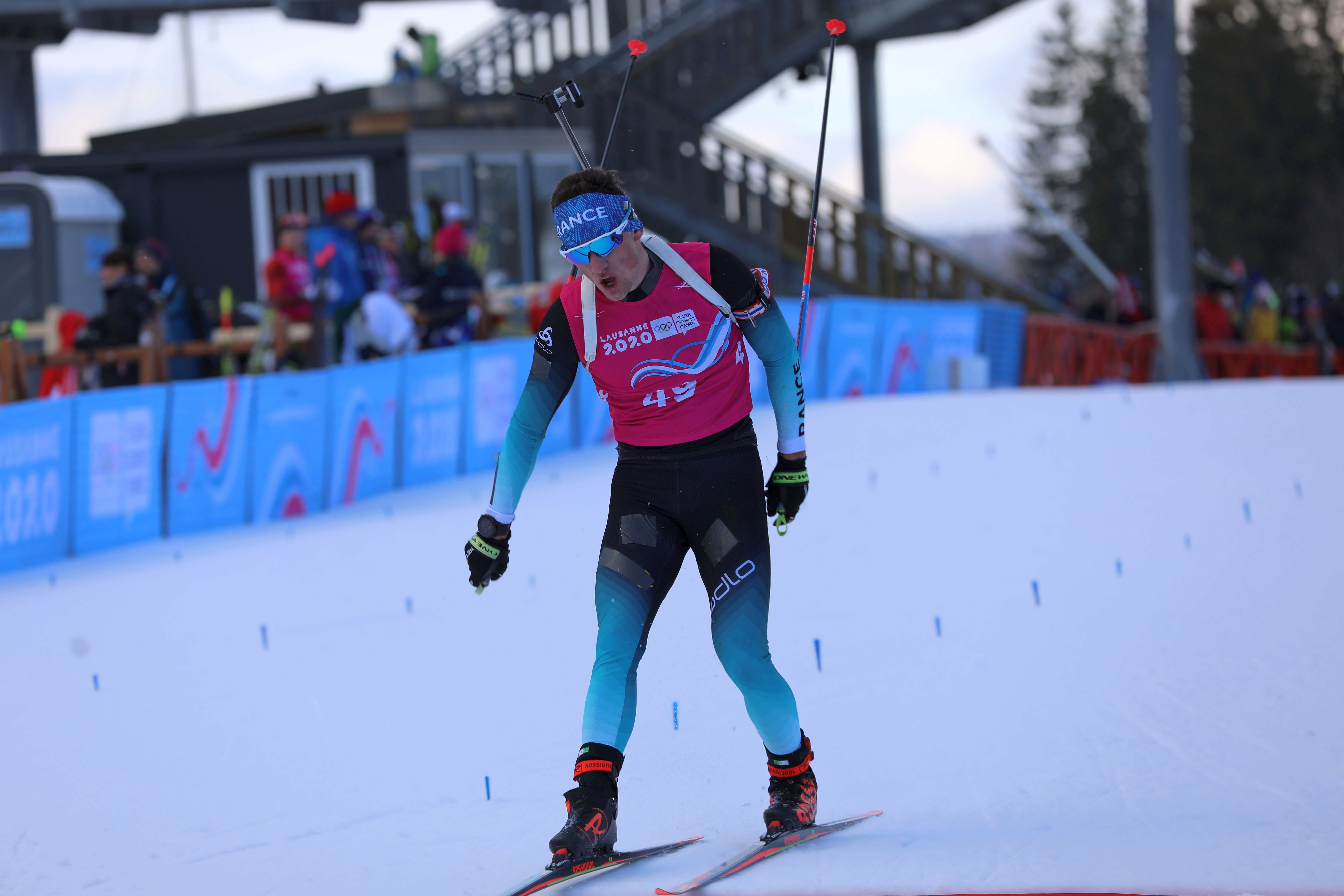 Biathlon at the 2020 Winter Youth Olympics in Lausanne at 11 January 2020 – Individual men